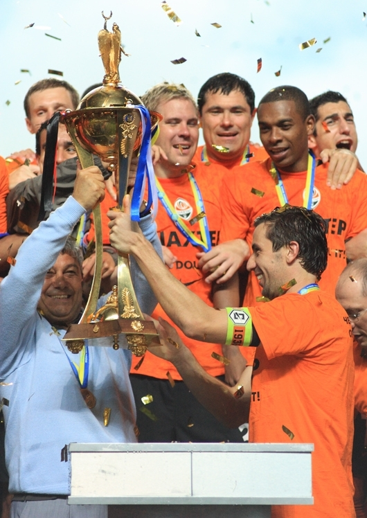 Mircea Lucescu (2011 Ukrainian Cup)